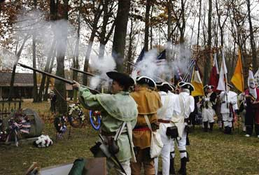 IMusket salute at 225th commemoration of de la Balme's defeat in NE Indiana